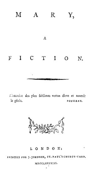 Title page from Mary Wollstonecraft, Mary: A Fiction, London: Printed for J. Johnson, 1788.